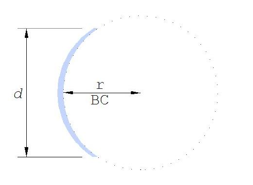 Contact Lens base curve and diameter The Base curve is the measurement of the radius of curvature in millimeters of the inside curve. The lenses diameter in millimeters. This picture is a reconstruction of a lens where d = 14 mm and BC = 8.4 mm.